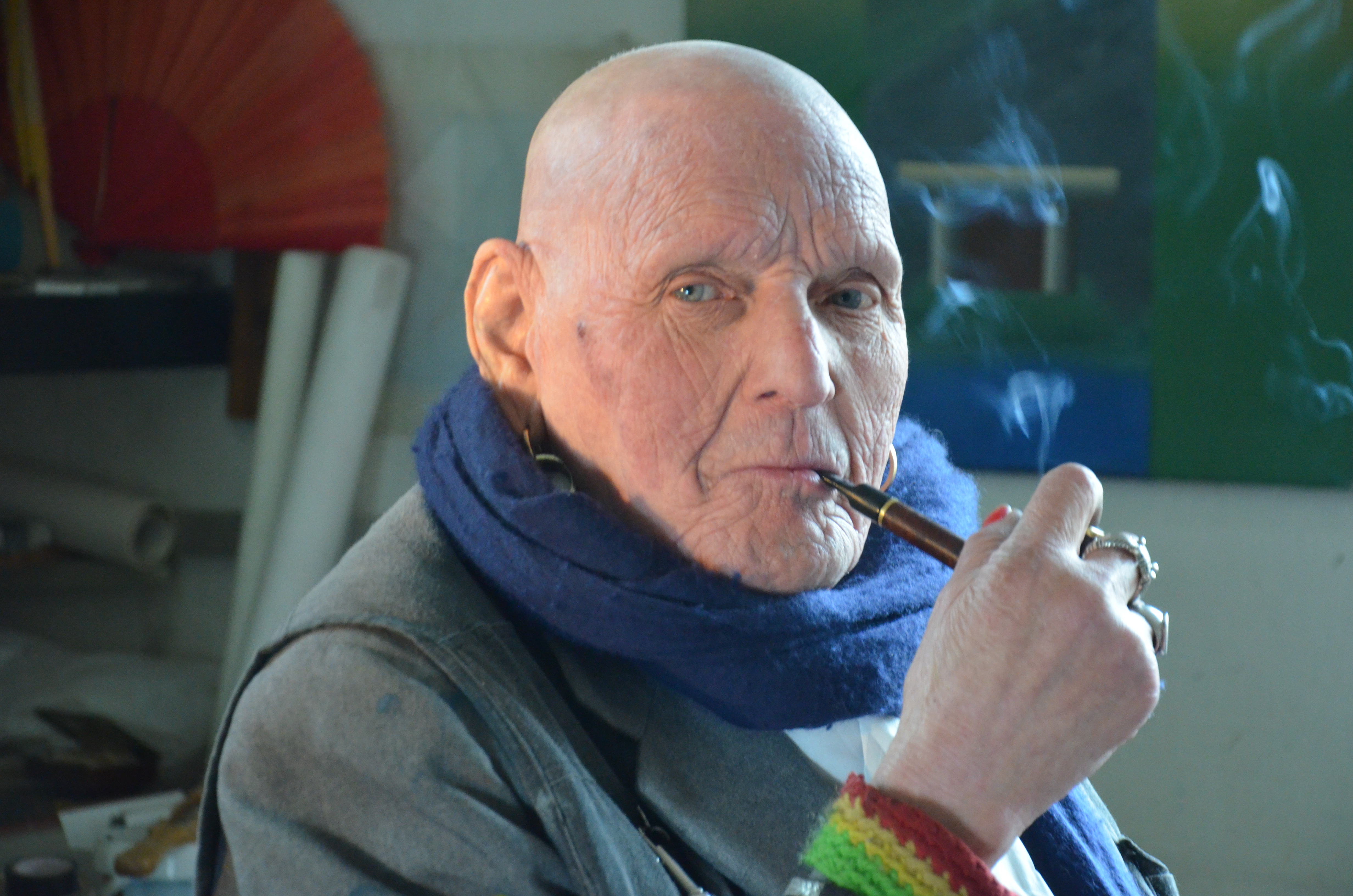 Swedish Artist Curt Hillfon